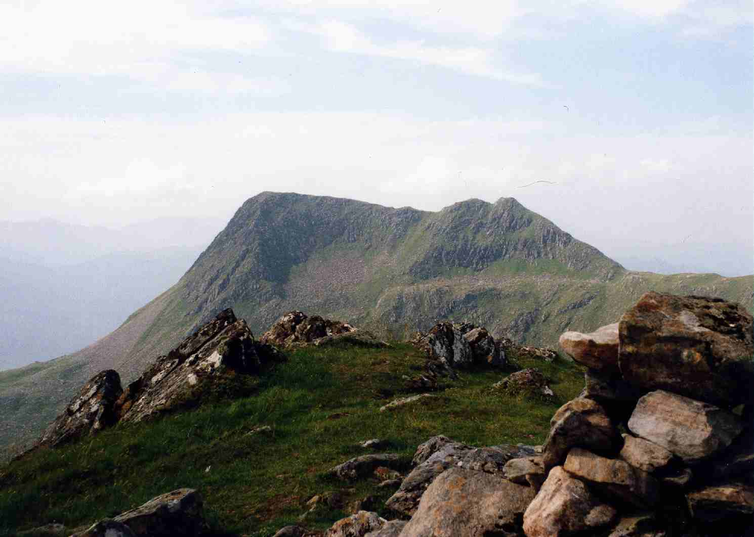 Personal photograph taken by Mick Knapton in July 1991